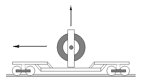 Basic principle of operation: Rotation about the vertical axis causes movement about the horizontal axis. Produced by Gordon Vigurs